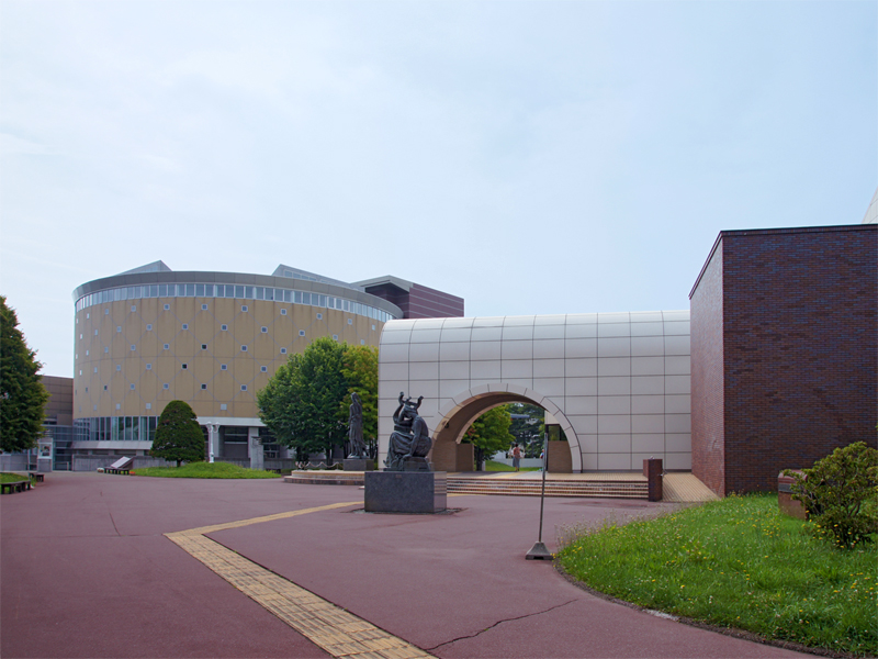 Hakodate Museum of Art, Hokkaido in Hakodate, Hokkaido prefecture, Japan